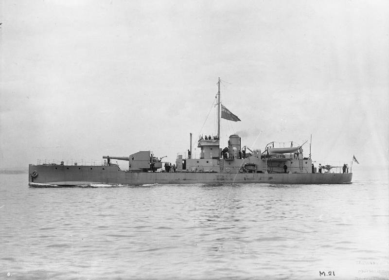 Photograph of British monitor HMS M21.